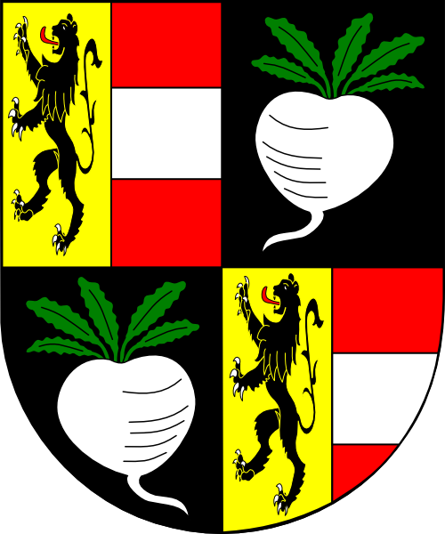 Coat of arms (shield only) of Leonhard von Keutschach, archbishop of Salzburg, Austria (1495 - 1519). Version 2 (used on some Salzburg coins).